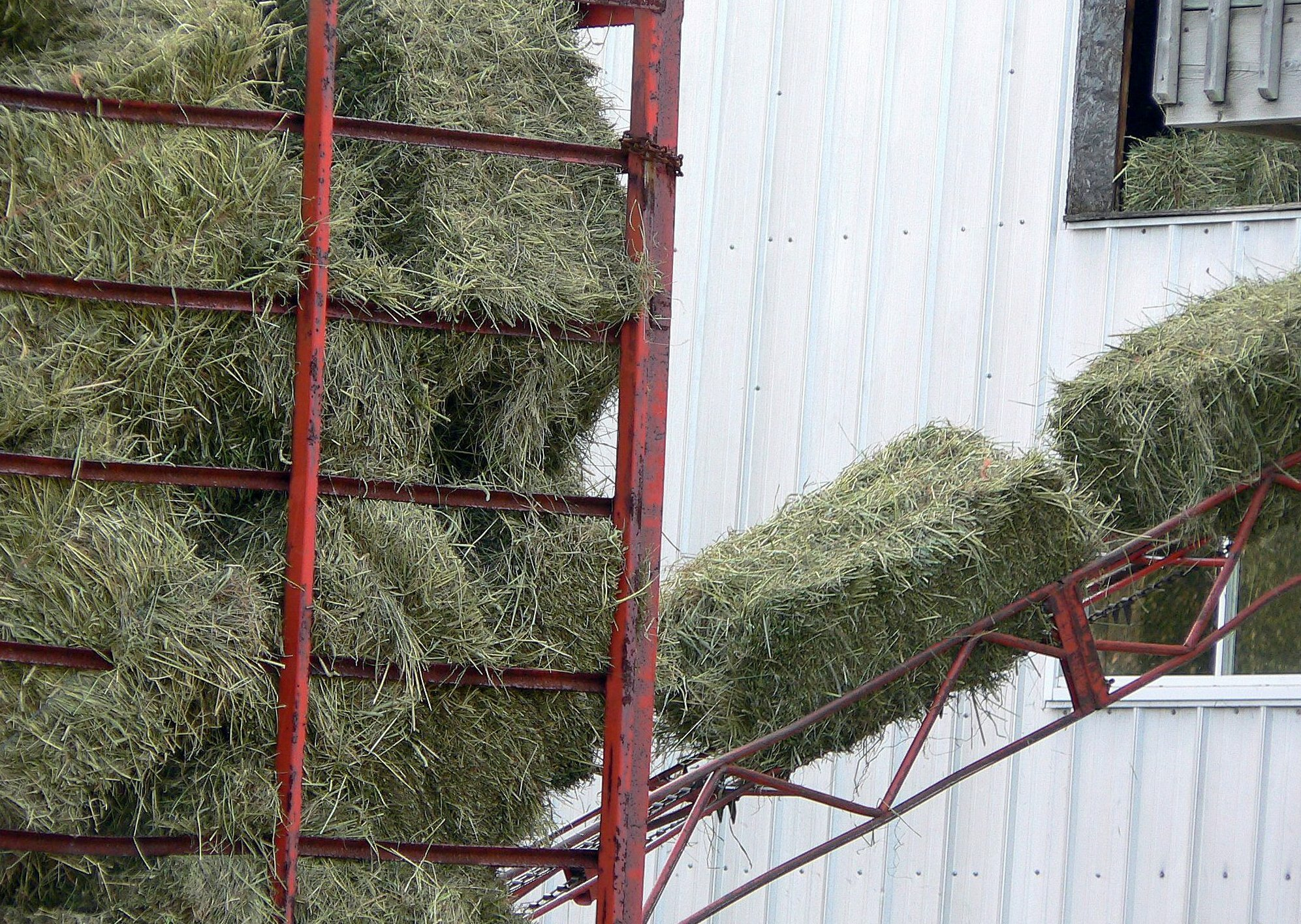 First load of fresh hay bales, 2008 (somewhere in Canada, presumably)